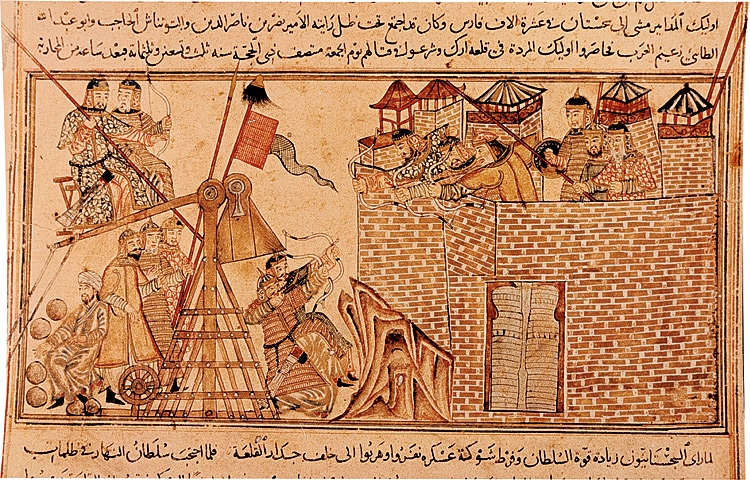 Mongols Besieging A City In The Middle-East, 13th Century.